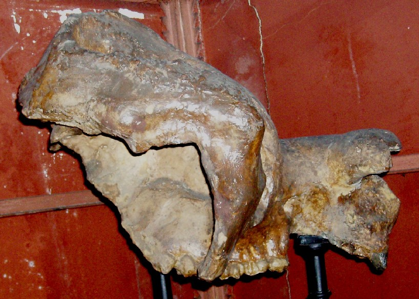 Skull of Nototherium mitcheli, an extinct marsupial